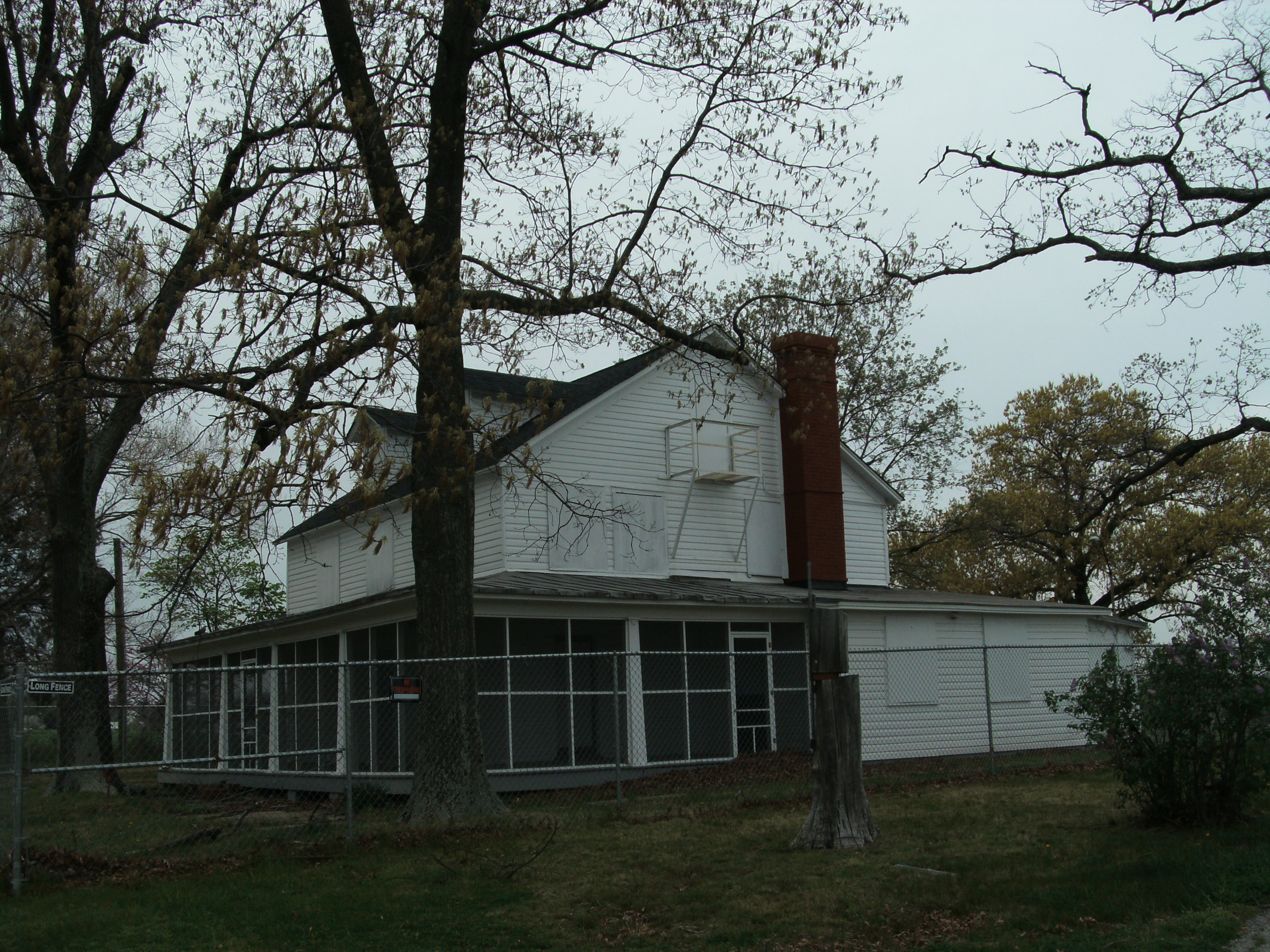 Fairfax County, VA GEDSC DIGITAL CAMERA